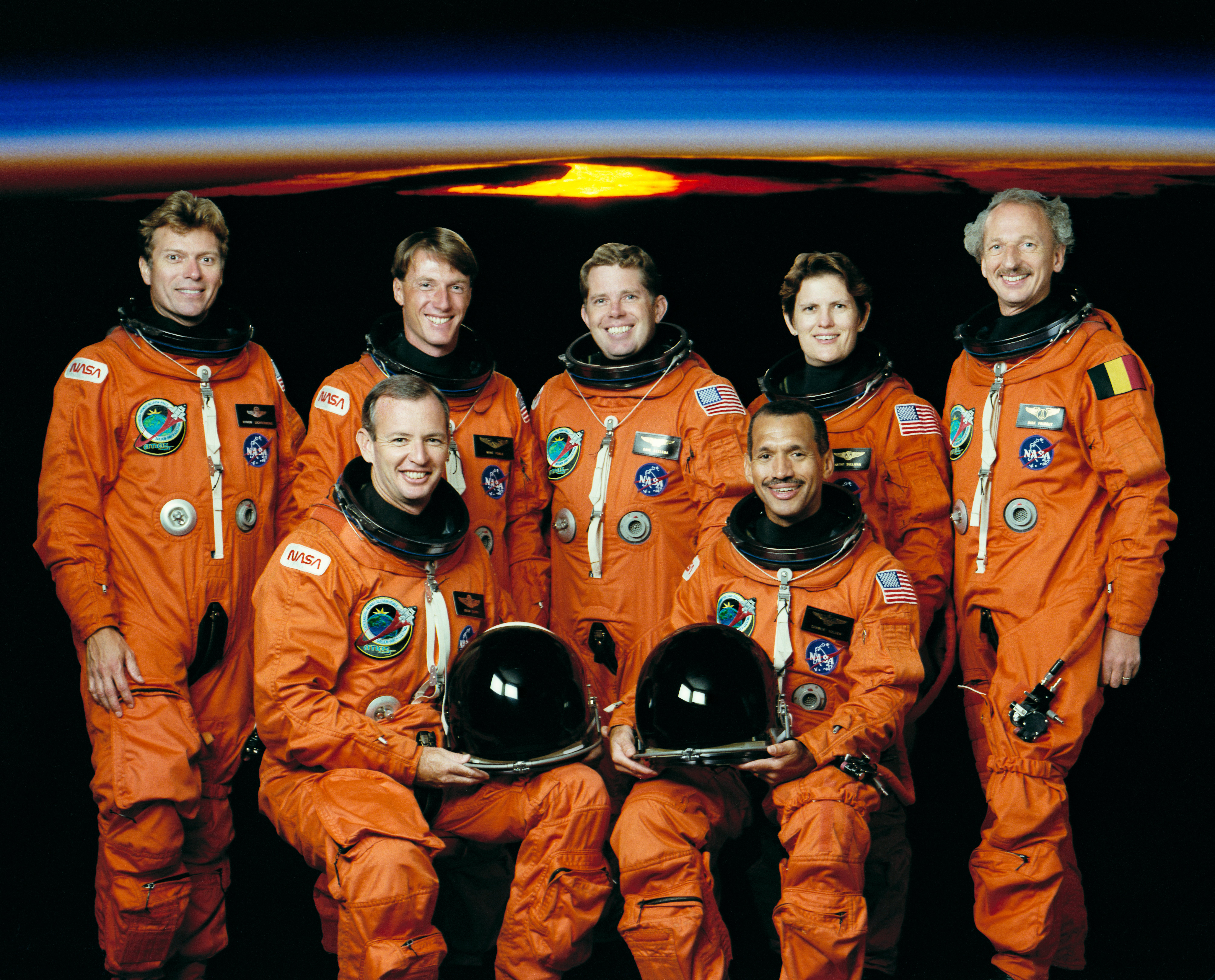 The STS-45 mission official crew portrait includes Brian Duffy, pilot (seated on left); and Charles F. Bolden, Jr., commander (seated on right). Standing on the back row (left to right) are Byron K. Lichtenberg, payload specialist 1; C. Michael Foale, mission specialist 3; David C. Leestma, mission specialist 2; Kathryn D. Sullivan, payload commander; and Dirk D. Frimout, payload specialist 2. The primary payload for the mission was the Atmospheric Laboratory for Applications and Science-1 (ATLAS-1). The mission launched aboard the Space Shuttle Atlantis on March 24, 1992 at 8:13:40am (EST).